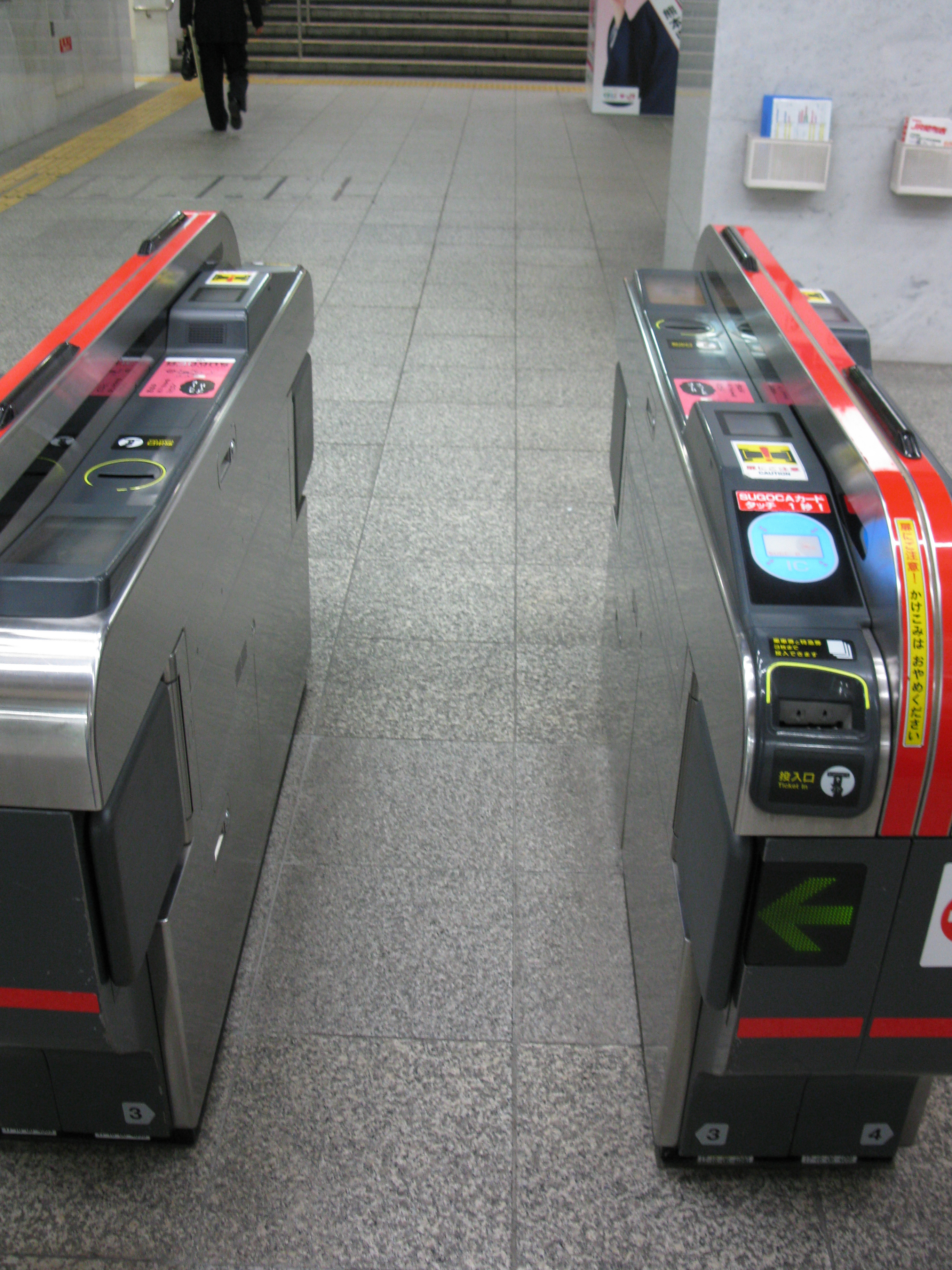 SUGOCA card reader on a gate, Hakata Station